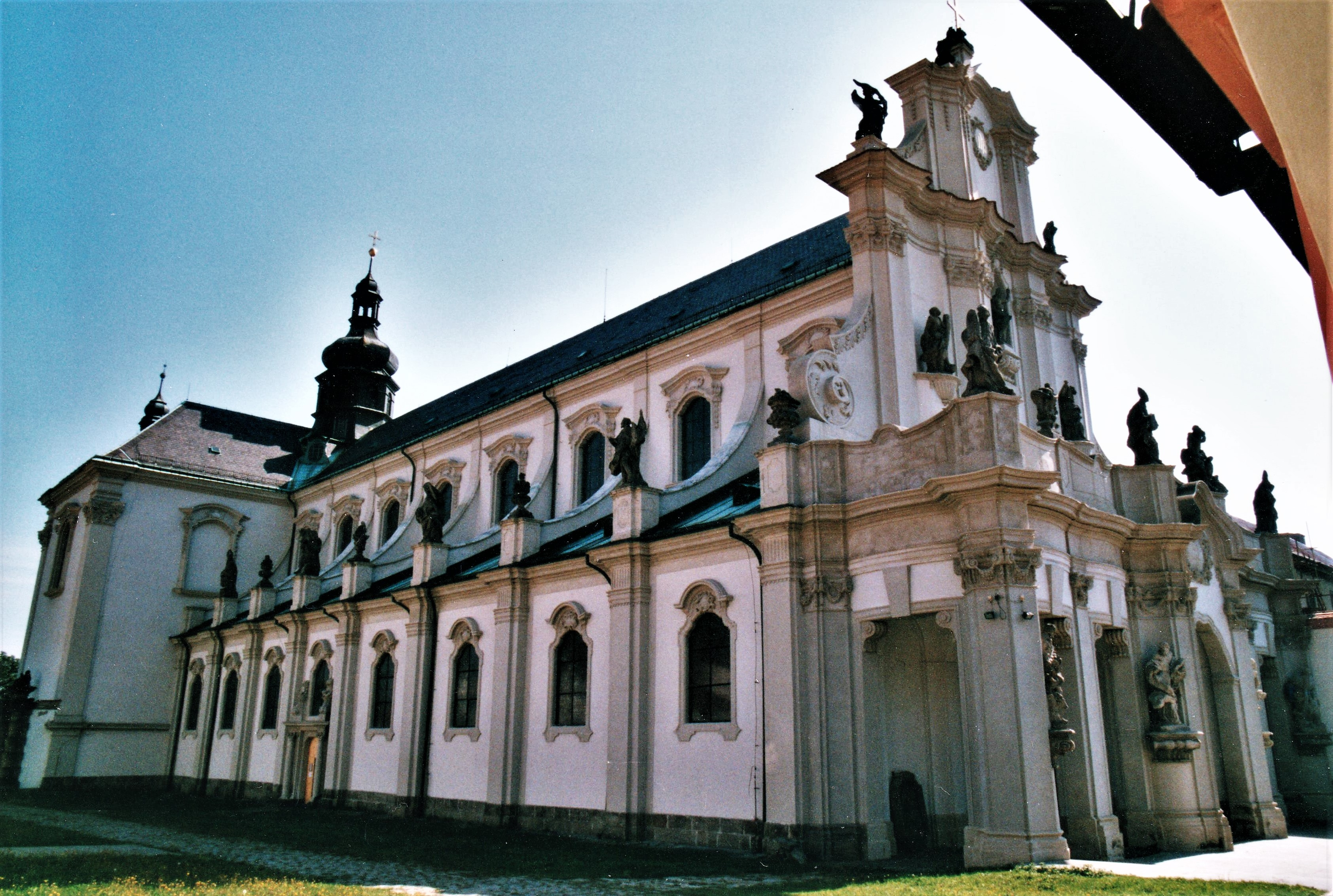 Osek Monastery: Church